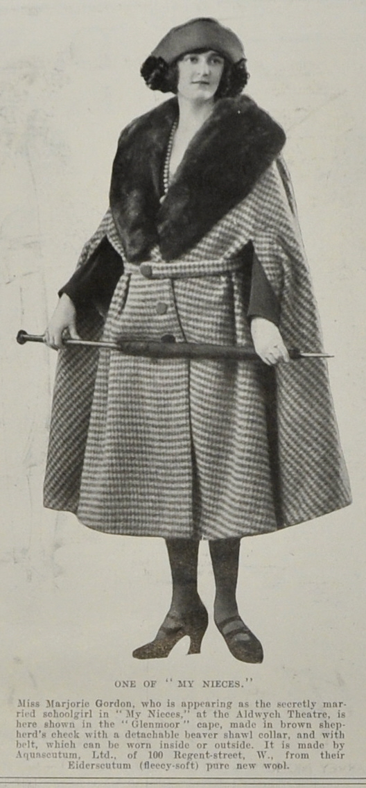 Actress Marjorie Gordon in the role of a niec in My nieces at the Aldwych Theatre, London, 1921; from: Illustrated Sporting and Dramatic News, 1921